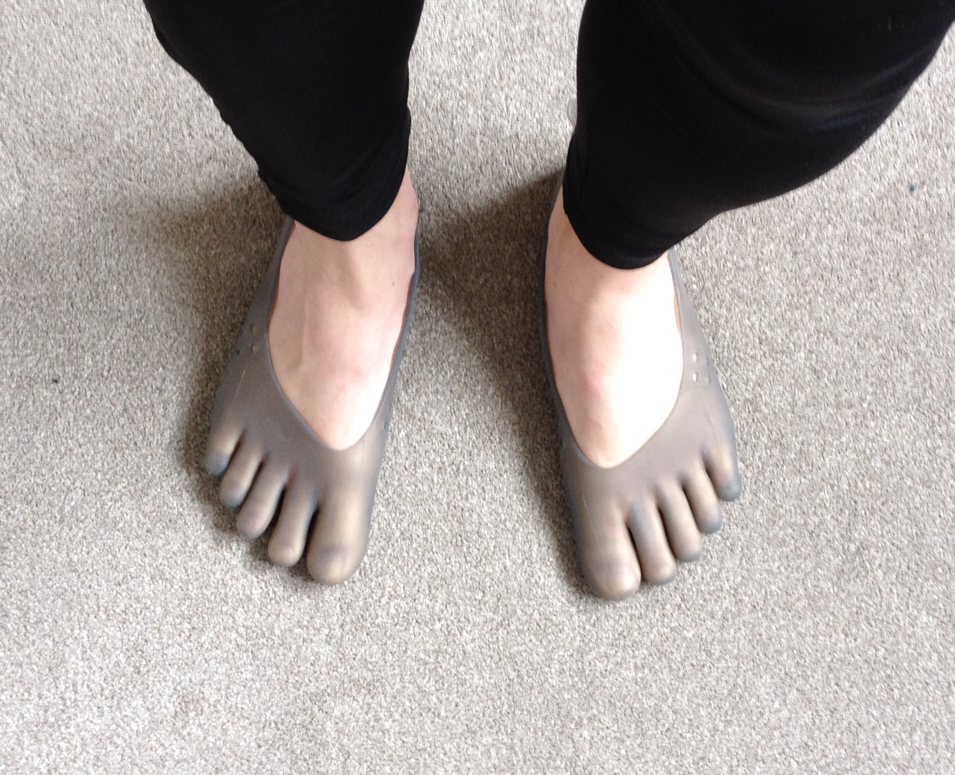 A runner wearing a pair of evoskin minimalist shoes.